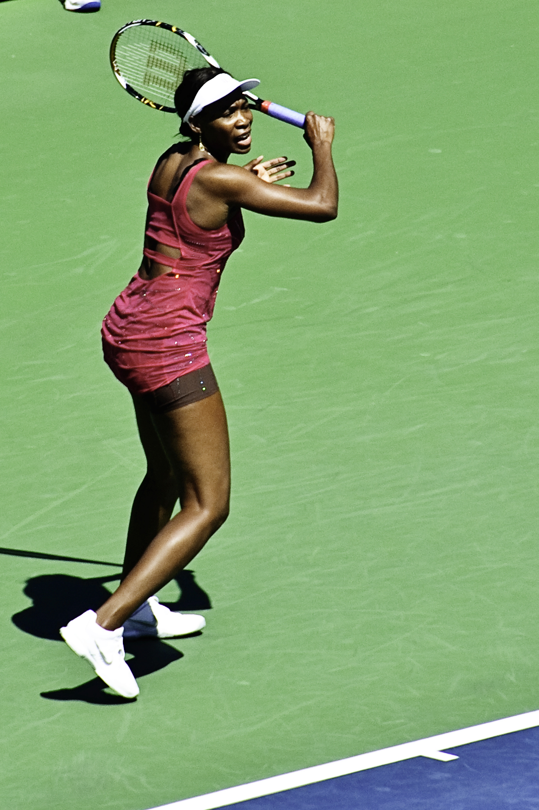 Venus Williams at the 2010 US Open